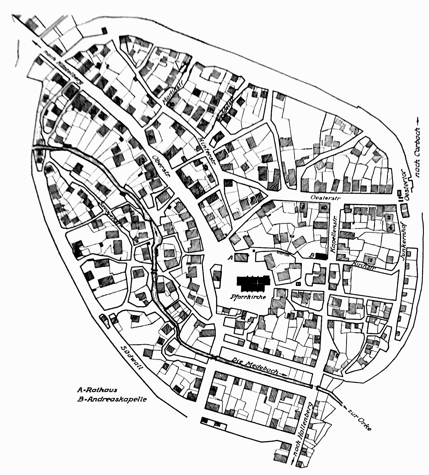 Medebach Town (Germany)